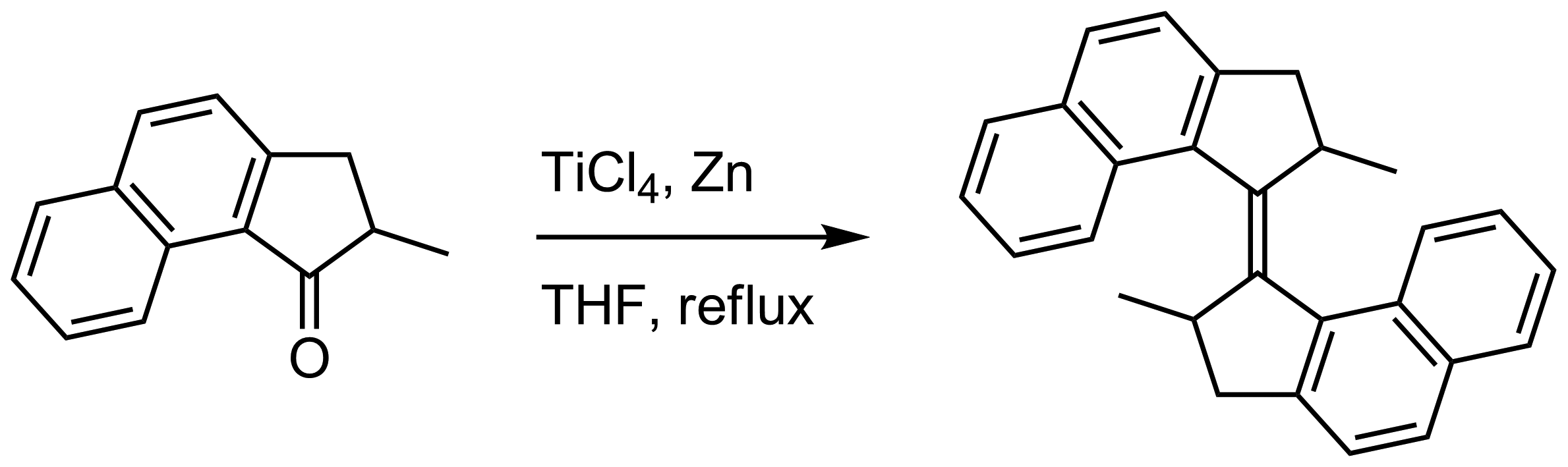 McMurry reaction Matthijs K. J. ter Wiel, Richard A. van Delden, Auke Meetsma, and Ben L. Feringa (2003). "Increased Speed of Rotation for the Smallest Light-Driven Molecular Motor". J. Am. Chem. Soc. 125 (49): 15076–15086.